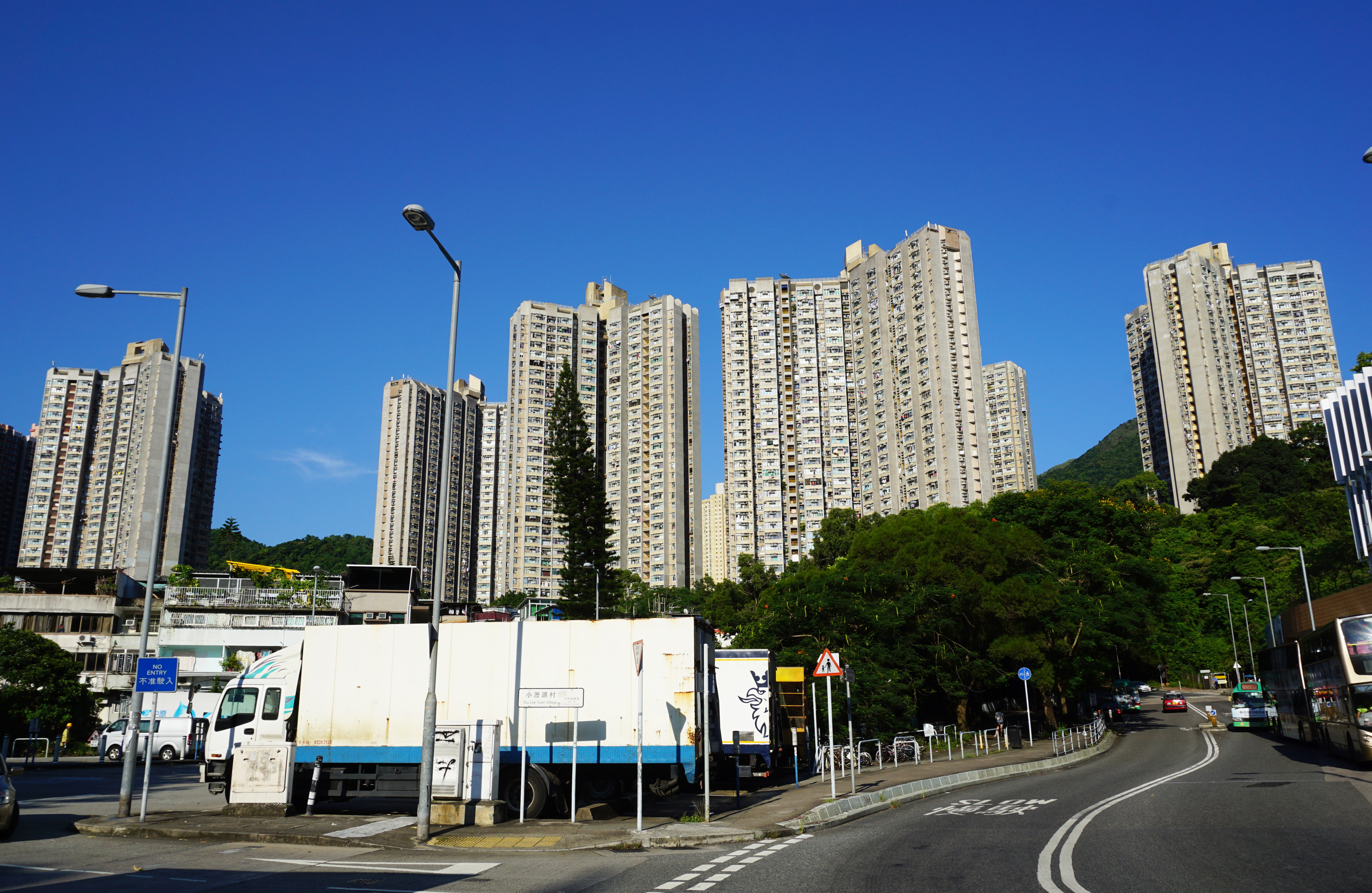 Kwong Yuen Estate in Siu Lek Yuen, Hong Kong.